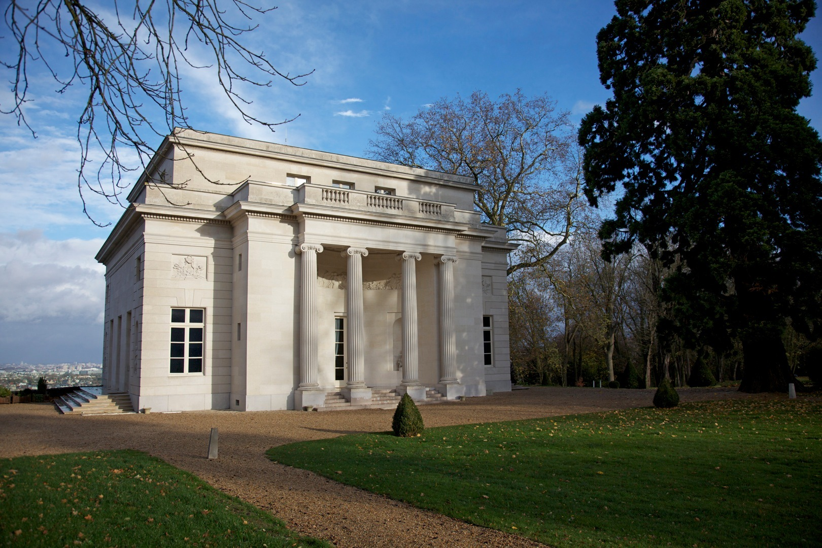 Pavillon de Musique, Louveciennes